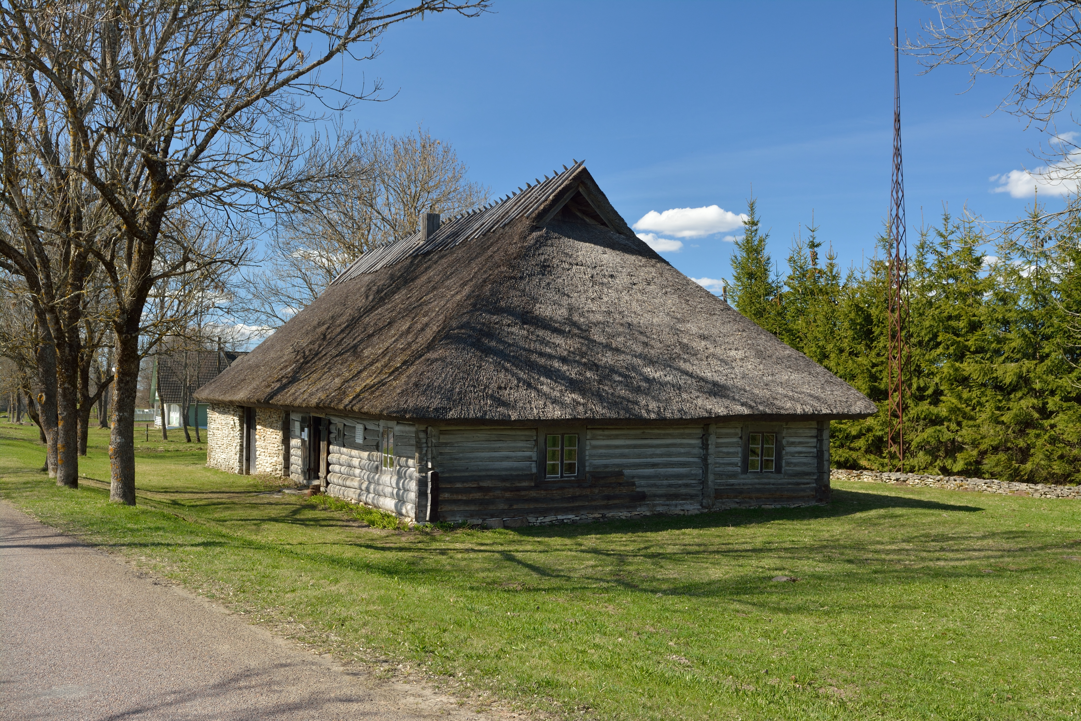 Atla-Eeru tavern